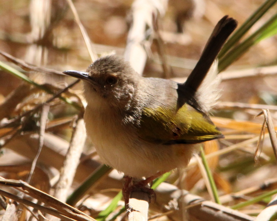 A Grey-backed Camaroptera in Mapungubwe National Park, Limpopo, South Africa.